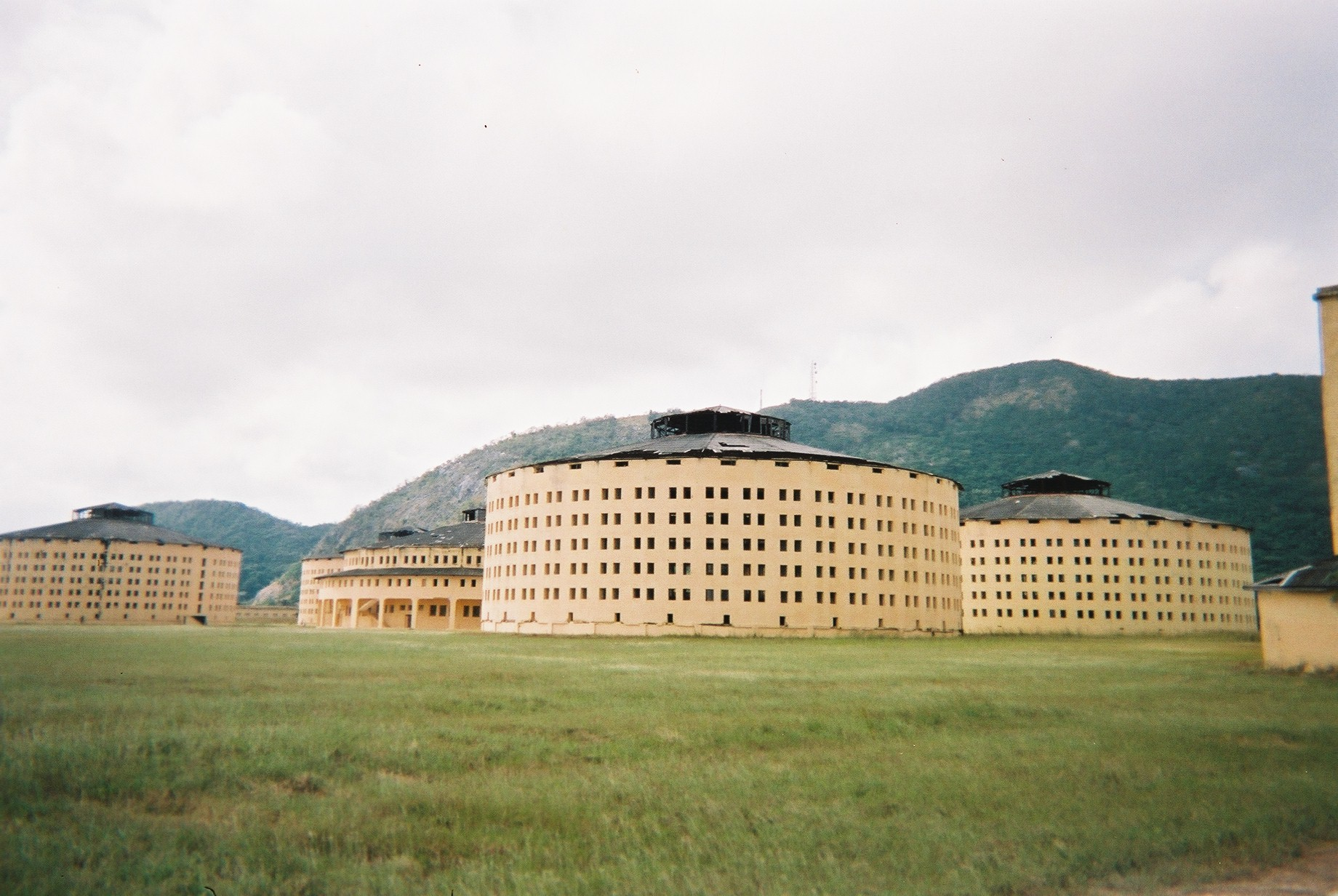 The prison "Presidio Modelo" on the island Isla de la Juventud (Cuba) where Fidel Castro was held prisoner in 1953. Picture taken by Friman, December 1st 2005, with a very special Cuban re-cycled camera. --Friman 23:09, 21 April 2006 (UTC)